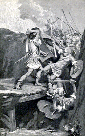 This elementary history of Rome presents short stories of the great heroes, mythical and historical, from Aeneas and the founding of Rome to the fall of the western empire. Around the famous characters of Rome are graphically grouped the great events with which their names will forever stand connected. Vivid descriptions bring to life the events narrated, making history attractive to the young, and awakening their enthusiasm for further reading and study.